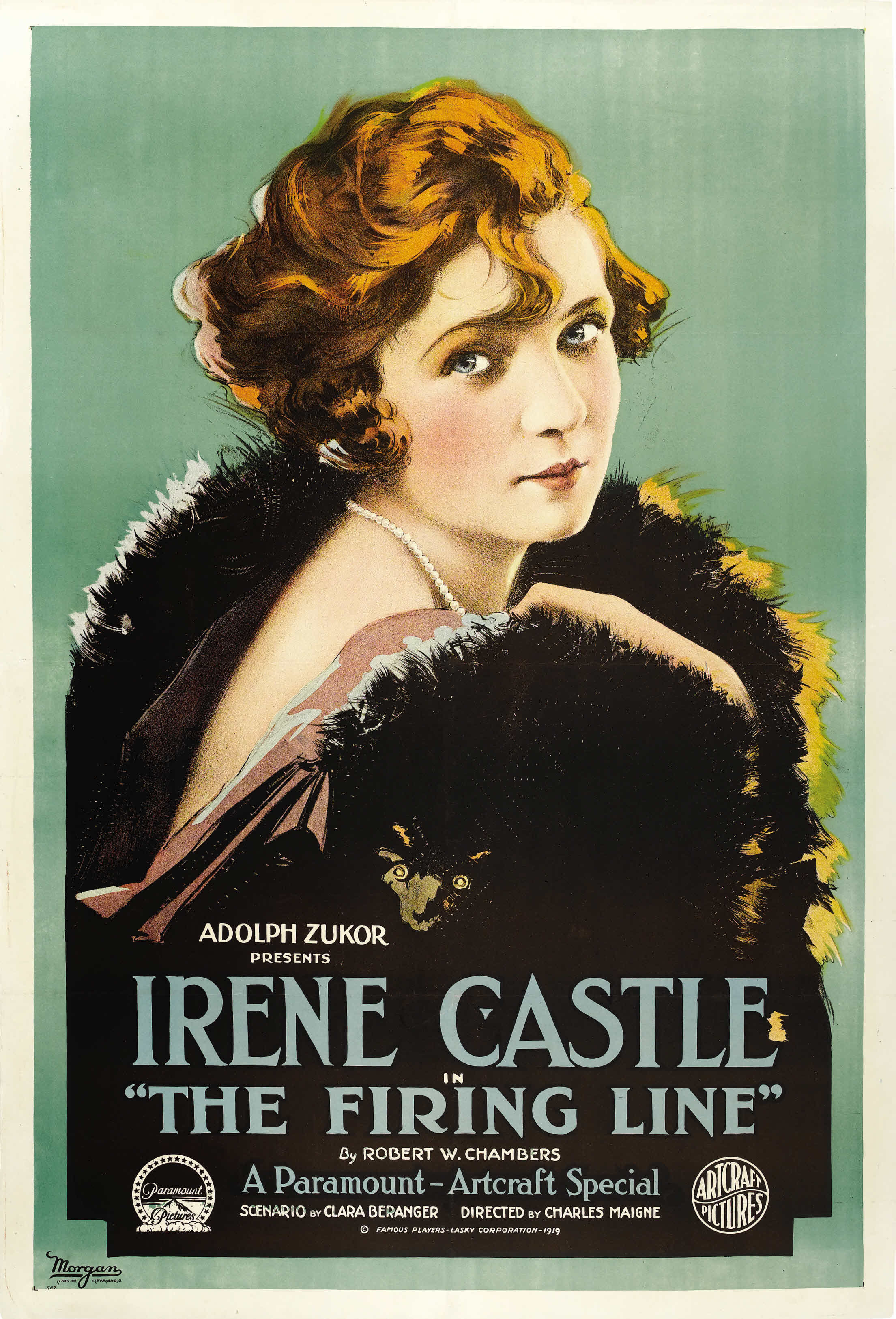 Poster the American drama film The Firing Line (1919) with Irene Castle.